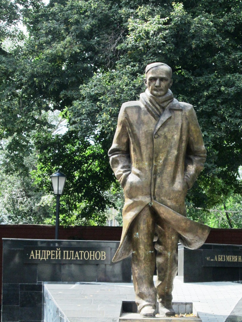 Andrey Platonov's monument in Voronezh, Russia